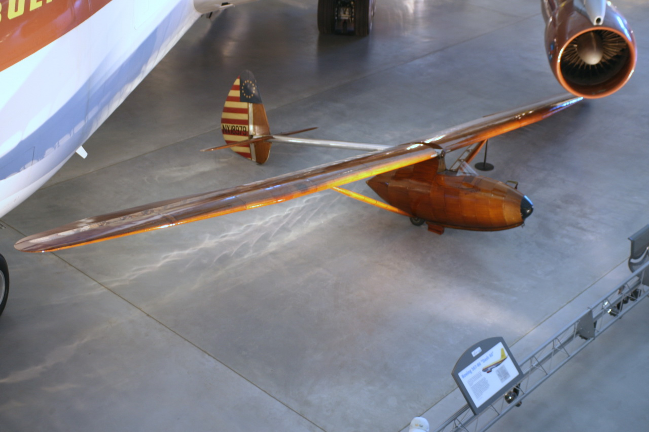 William Hawley Bowlus offered the BA-100 Baby Albatross as a series of builders kits advertised in popular magazines to pilots interested in affordable flying at a time when the money for such activities was hard to come by. The kits cost one-fifth the $2,500 asking price of the higher performance Bowlus-du Pont Senior Albatross. Bowlus made parts for about 90 aircraft and sold between 40 and 60 kits before the start of World War II ended the program.